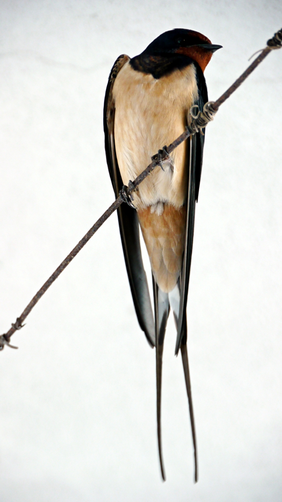 Close distance photography of an Swallow Hirundo rustica revealing several body features.